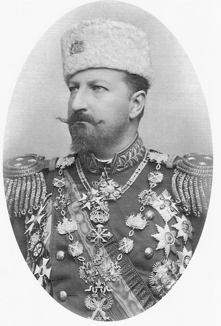 Ferdinando I Tsar of Bulgaria